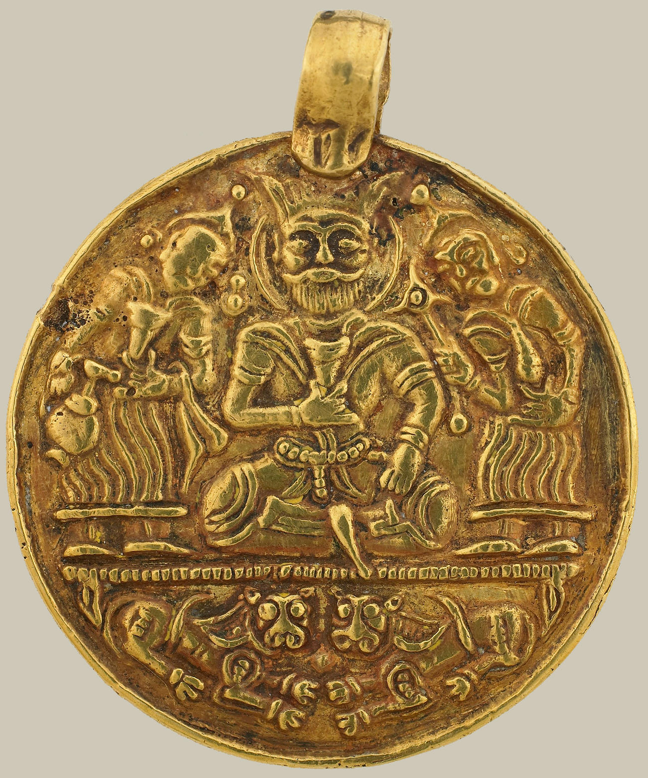 Medallion of the Buyid ruler Adud al-Dawla.